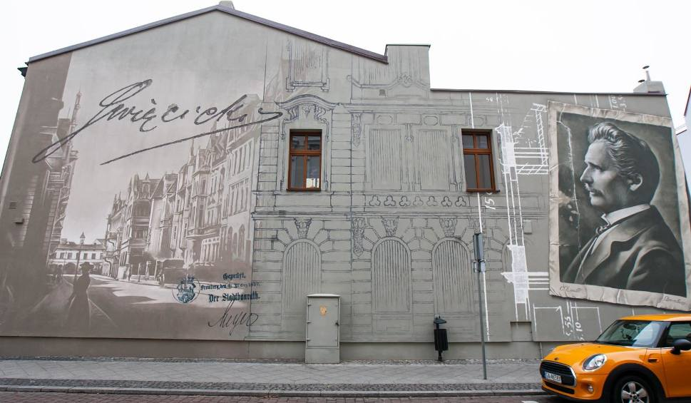 Mural